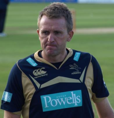 Dominic Cork playing for Hampshire, picture by Gus Stephens